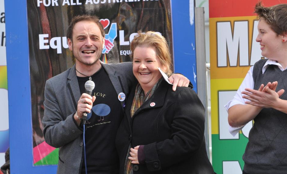 Equal Love Campaign Coordinator with actor Magda Szubanski